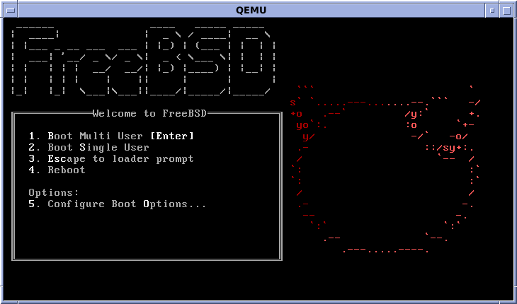 Bootloader with ASCII art, from FreeBSD 10. Running in a QEMU VM.